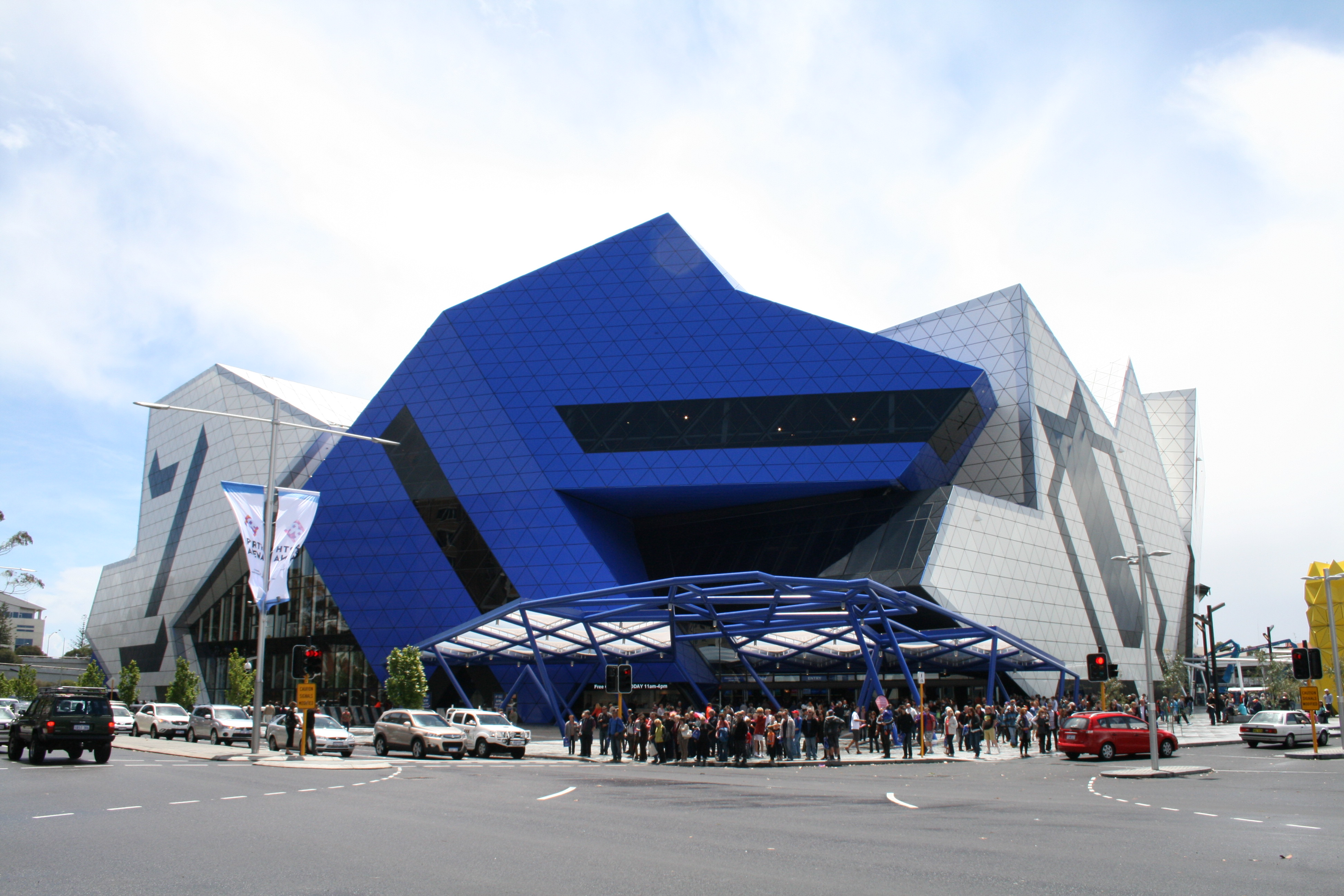 The exterior of Perth Arena.